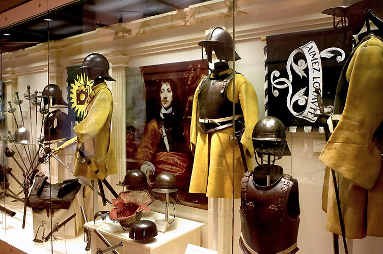 The Armouries of Cromwell's Ironsides. Royal Armouries Museum, Leeds